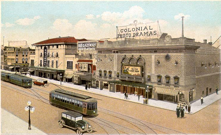 Postcard view of "Theatrical District, Broad Street, Richmond, Virginia," 8th & Broad Streets, Richmond, Virginia. View shows street scene with at least two Cinemas and one other theater of some type visible. On street are three streetcars, two automobiles, and people, in the style of 1920s. A historic postcard showing electric-powered trolley streetcars in Richmond, Virginia, the city where Frank J. Sprague successfully demonstrated his new system on the hills in 1888. Of course the streetcars shown here are those of two generations later, of the type mass produced and seen in cities throughout North America. Looks like Perely Thomas cars. The cinema is showing To the Last Man (1923). (From the automobiles and women's fashion and other period details, this is almost certainly the silent version released in September 1923 rather than the 1930 or 1933 remake.)